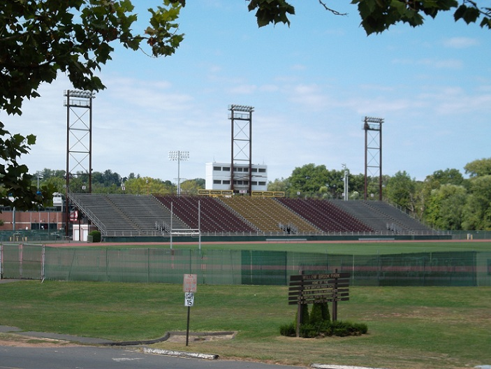 A recent picture showing seating colors changing at Veterans Stadium in New Britain, CT.